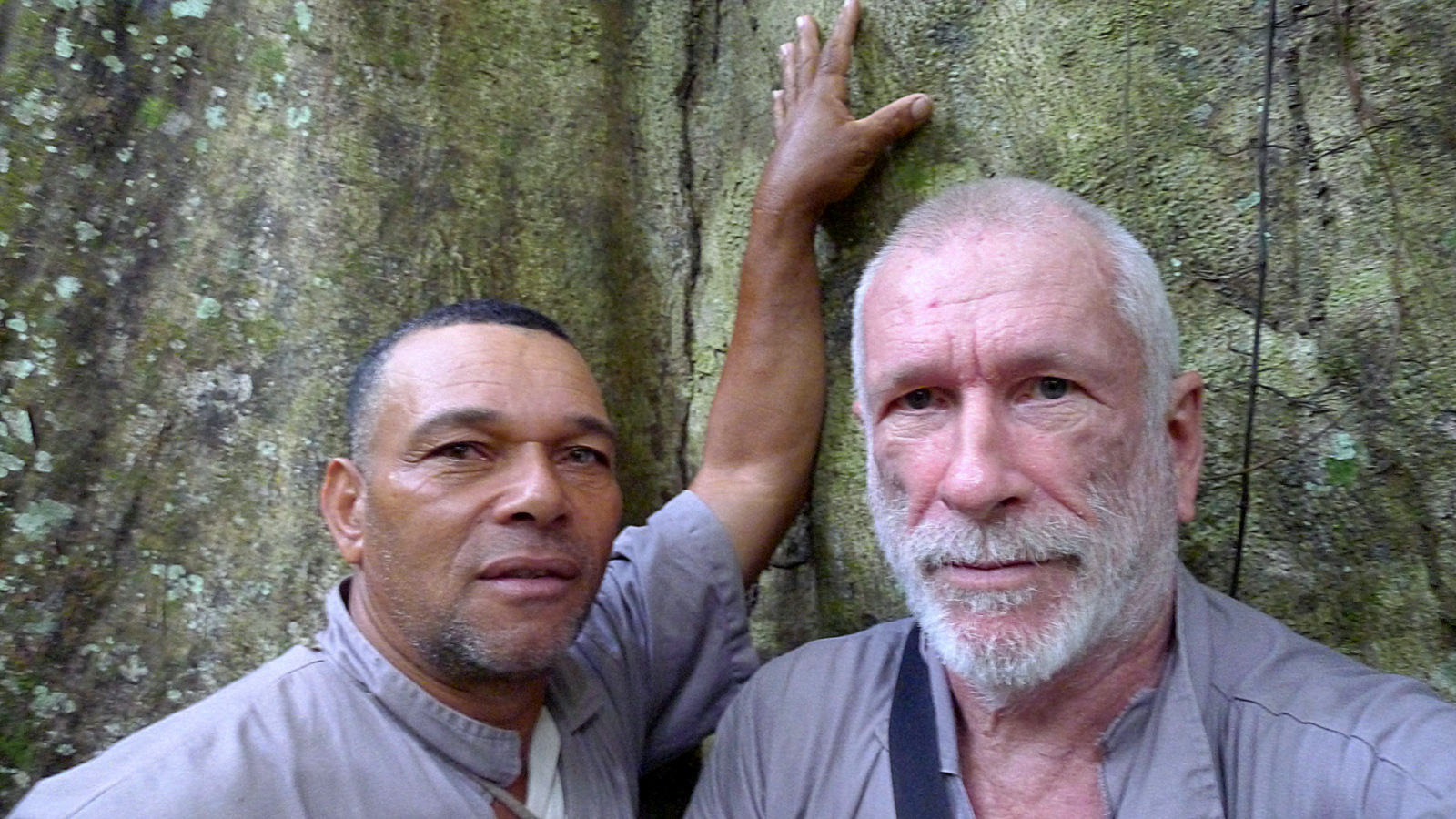 Collecting... Atlantic forest, northern littoral of Bahia, Brazil